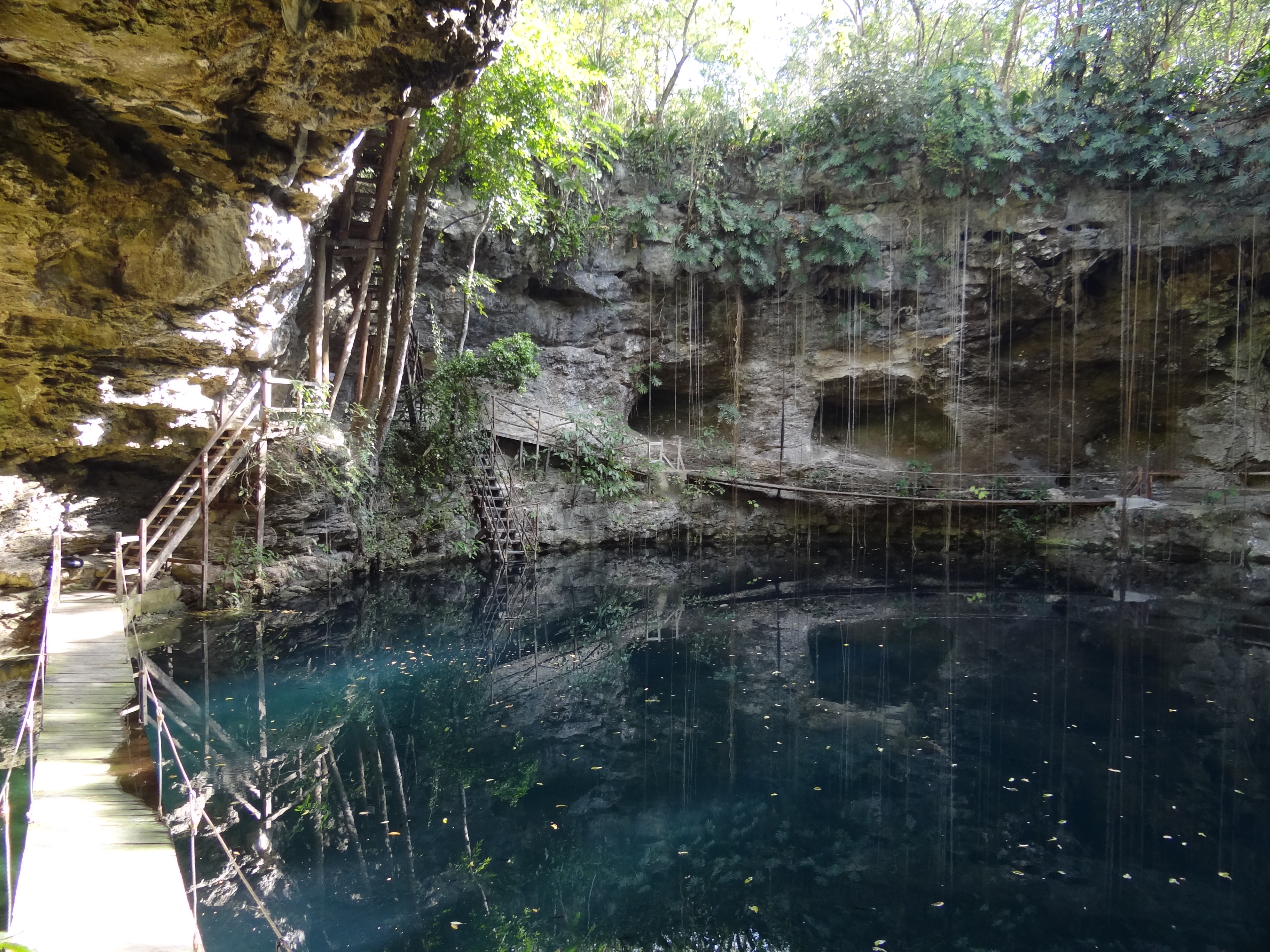 X-Canche Cenote - Near Ek Balam Archaeological Site - Yucatan - Mexico - 03